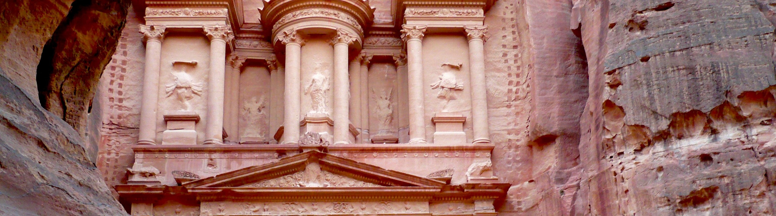 View from Al Khazeh Detail In Petra Siq Jordan